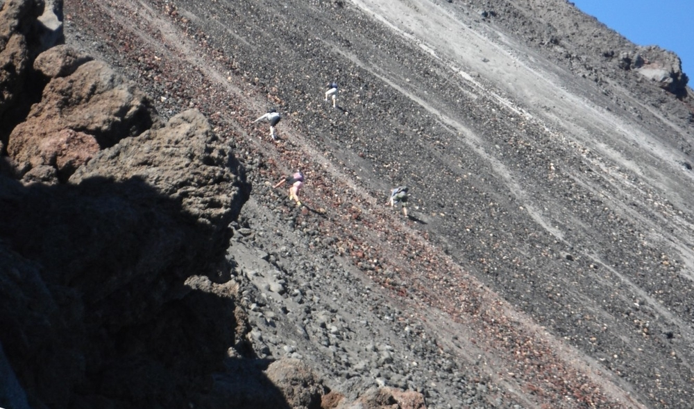 Scramblers up Mt. Ngauruhoe